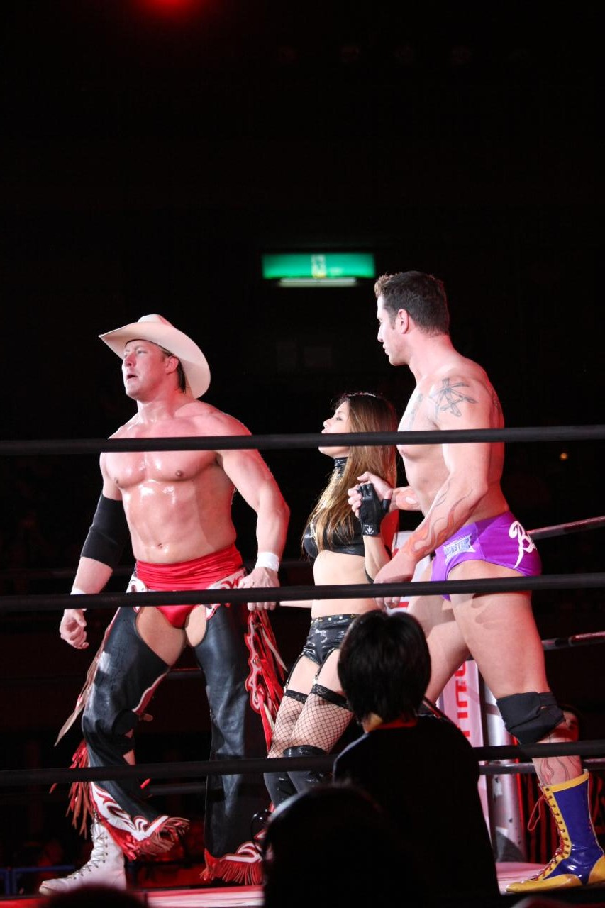 Professional wrestlers Lance Cade (left), Francoise (center) and Rene Bonaparte (Real name Rene Goguen; left) at a HUSTLE show in May 2009.